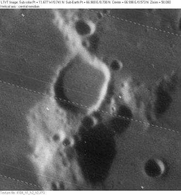 LO-IV-184H Pomortsev is the irregularly shaped crater above center. The 7-km diameter circular crater above it is Dubyago N. The long shadows in the lower right are being cast onto the floor of 37-km Maclaurin O. They correspond to height differences of up to about 2800 m. The 8-km circular crater on the floor of Maclaurin O is unnamed.